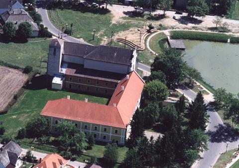 Nyírbátor Hungary aerialphotography